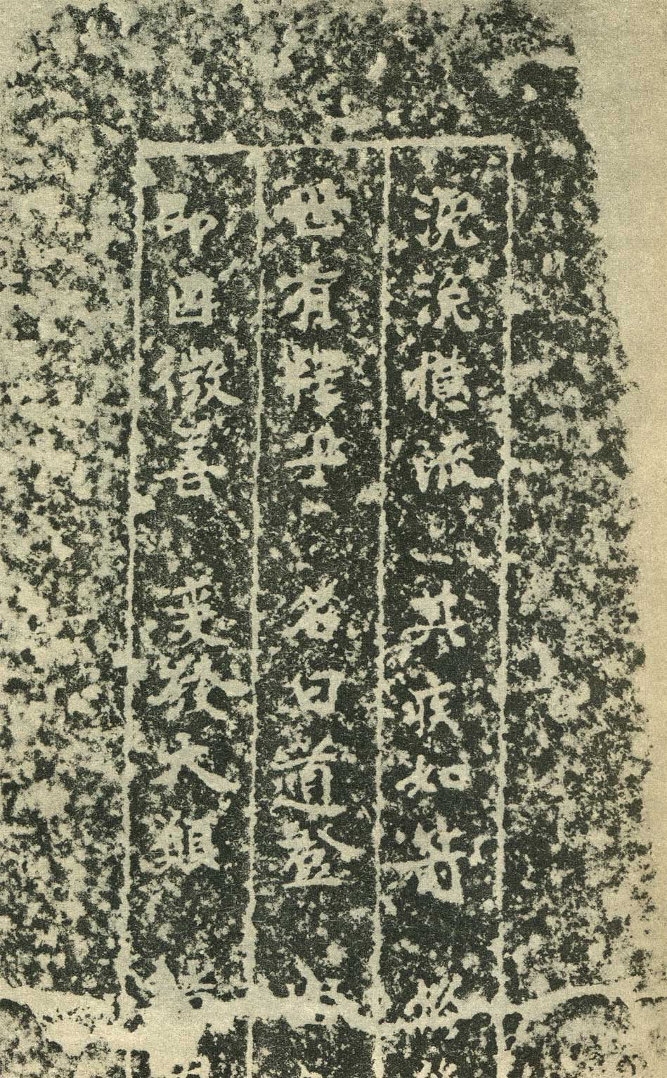 Ujibashi Danpi, owned by Hashi-dera Temple in Kyoto